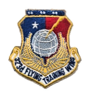 Emblem of the 323d Flying Training Wing